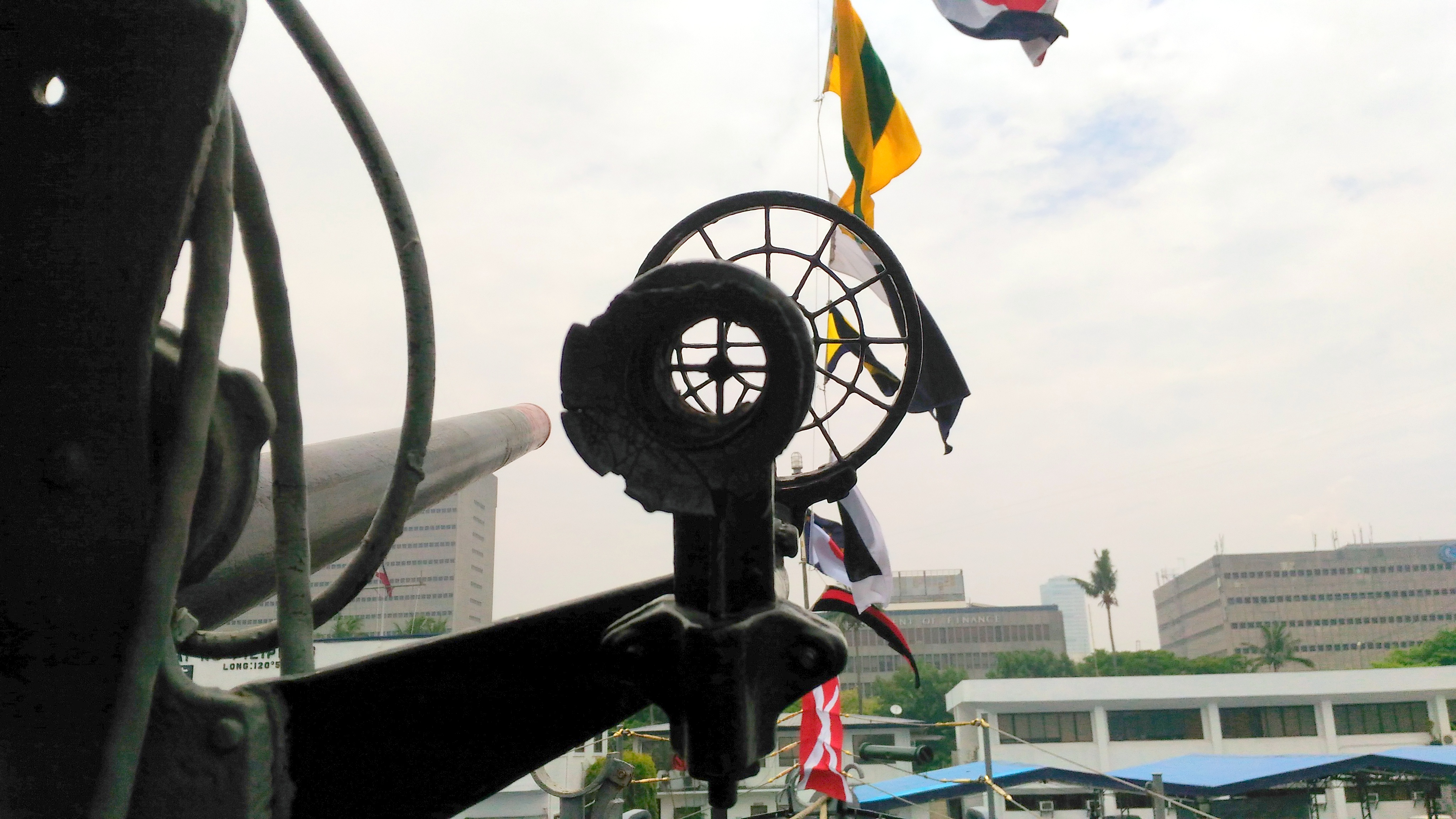 A close up of one of the sights of the 3"/50 Mark 22 gun of the BRP Rajah Humabon Frigate of the Philippine Navy. Photo taken at the Naval Station Jose Andrada in Manila.